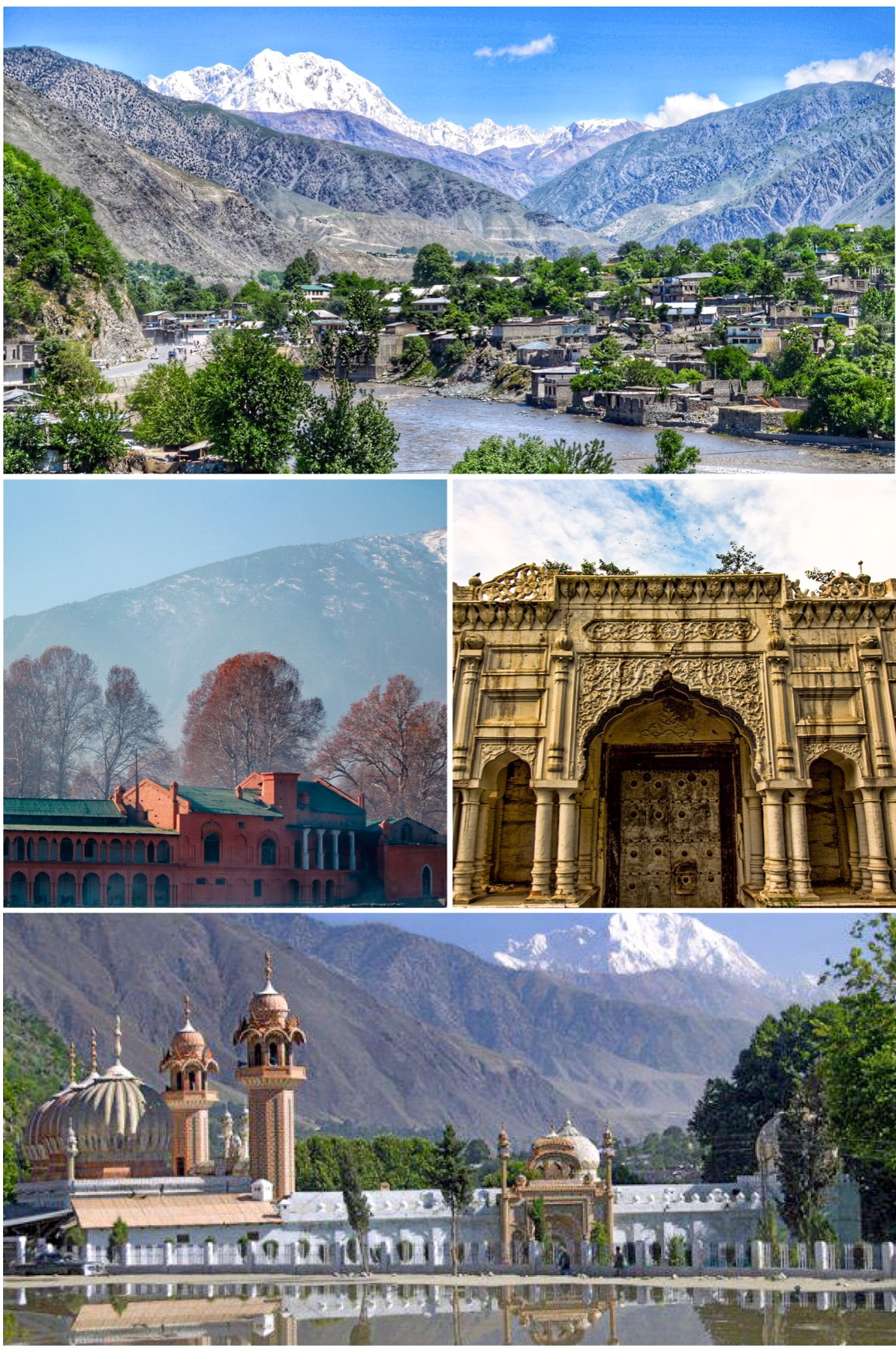 A montage of the town of Chitral, Pakistan